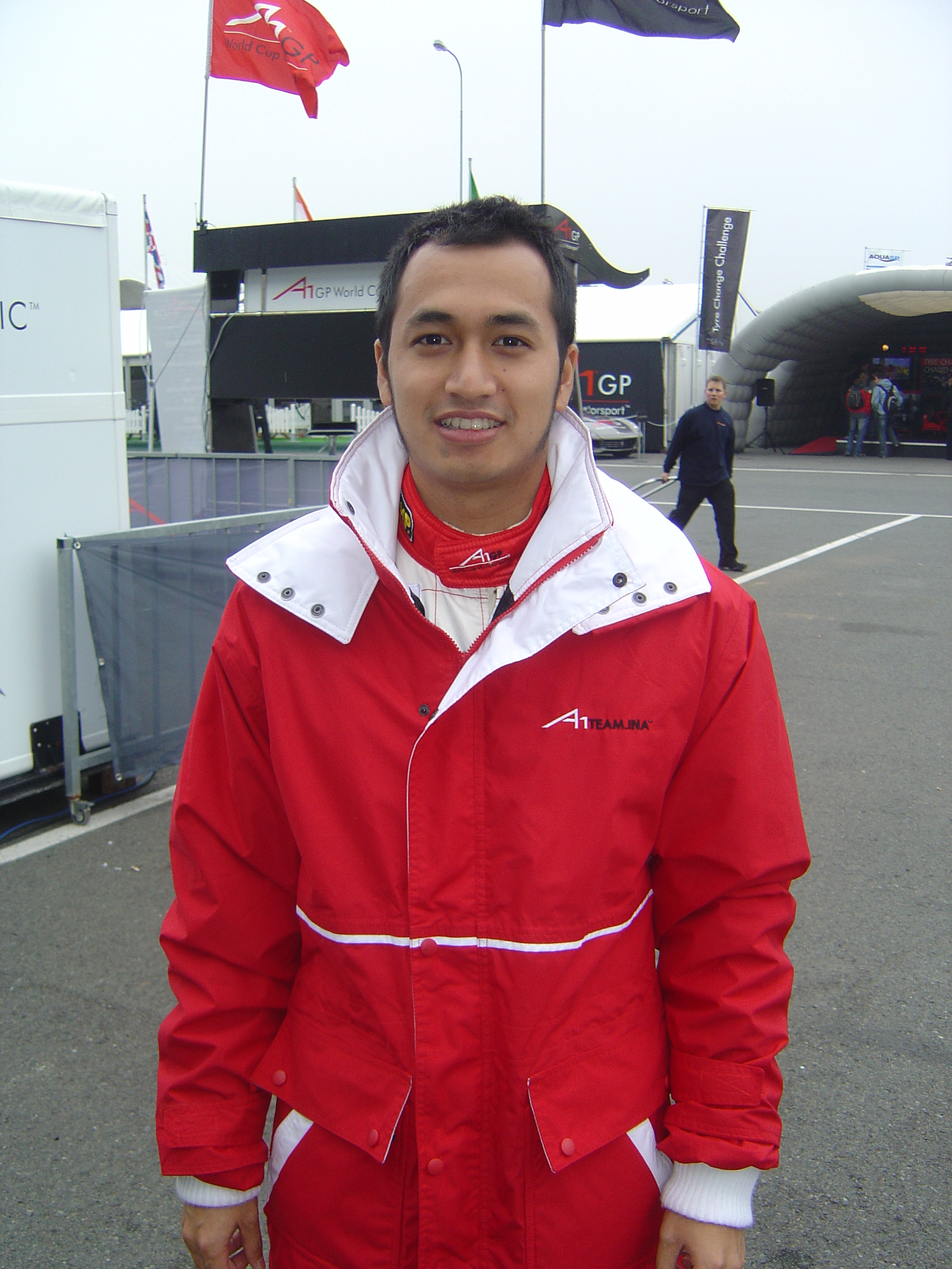 Satrio Hermanto: the photo was taken during 2007's A1GP race weekend at Brno